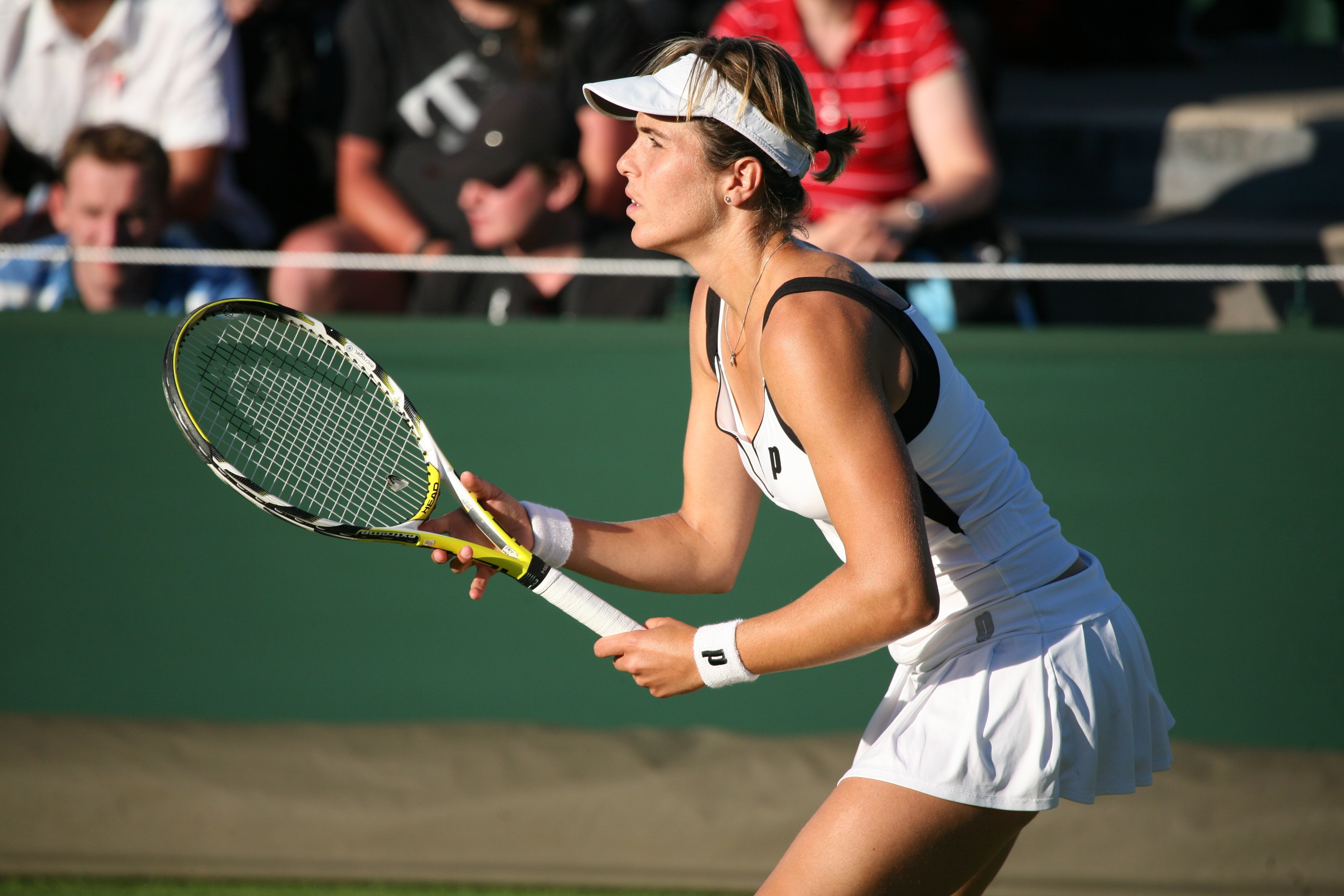 María José Martínez Sánchez against Agnieszka Radwańska in the 2009 Wimbledon Championships first round